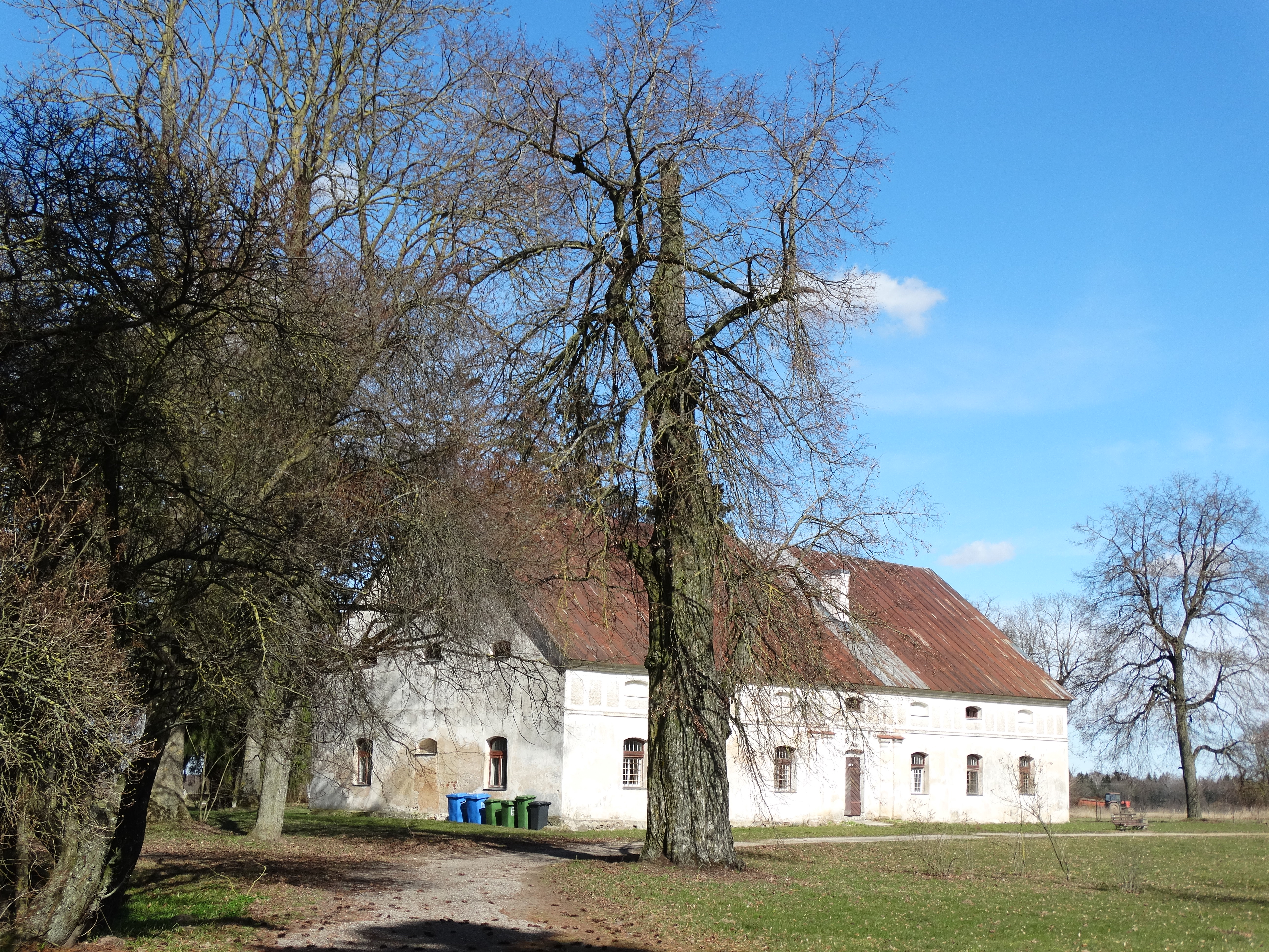 Žeimiai manor, park, Jonava district, Lithuania